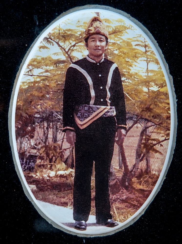 Detail of the Tomb of Peter Mojuntin in St. Michael, Donggongon, Sabah